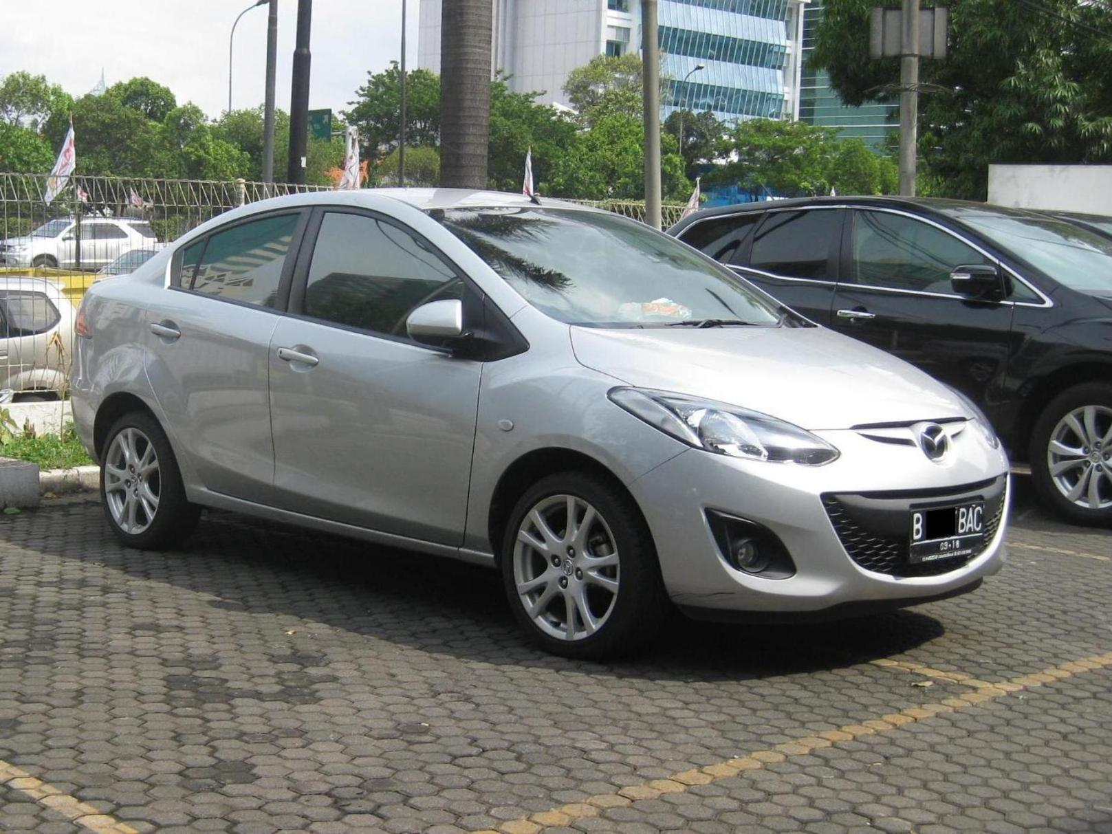 2011 Mazda2 Sedan 1.5 R (DE), photographed in Jakarta, Indonesia.